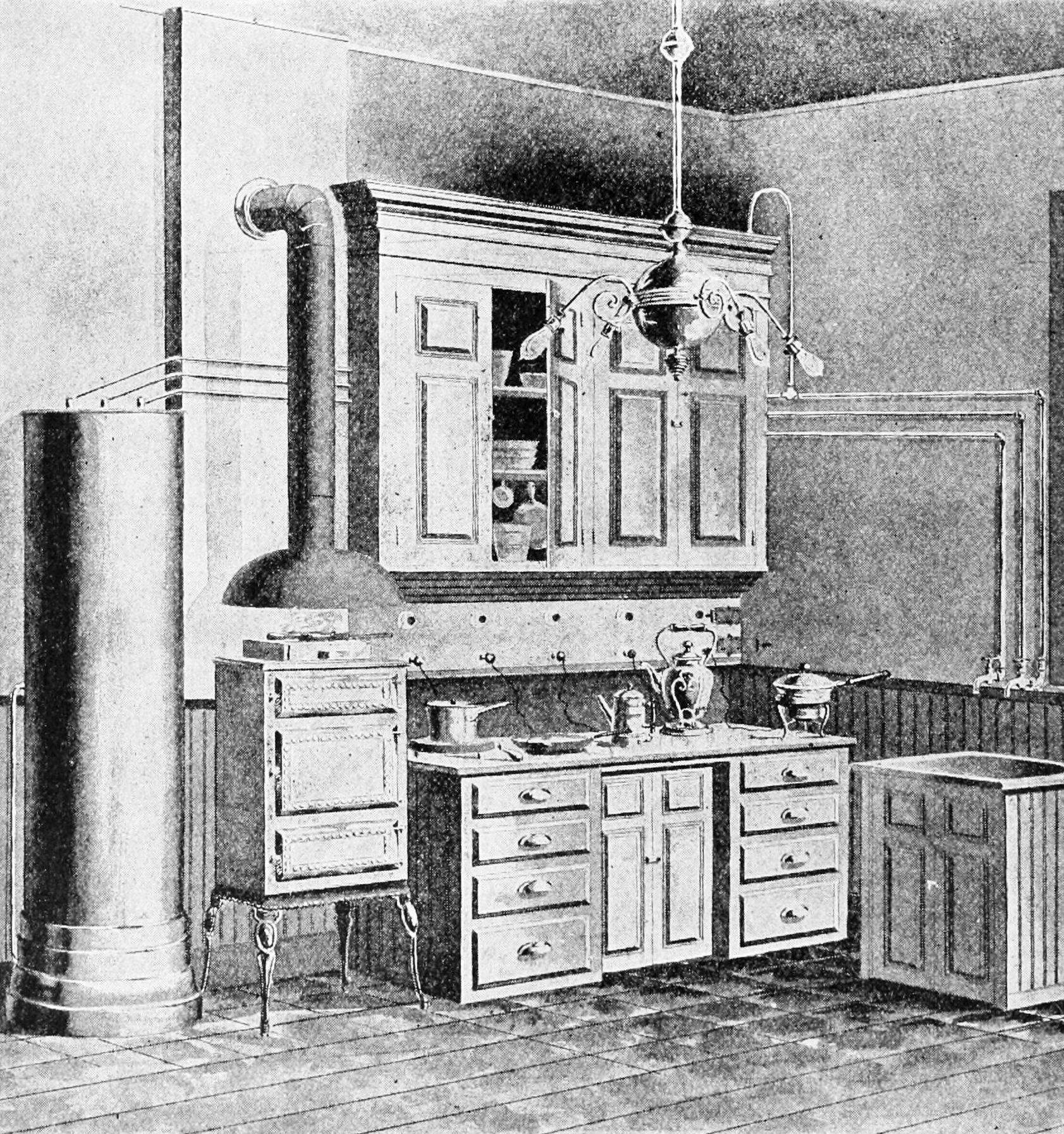 An electric kitchen